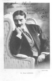 Max Linder, French actor, film director, and comedian.